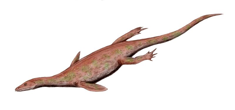 Lariosaurus balsami, a nothosaur from the Middle Triassic of Europe, pencil drawing